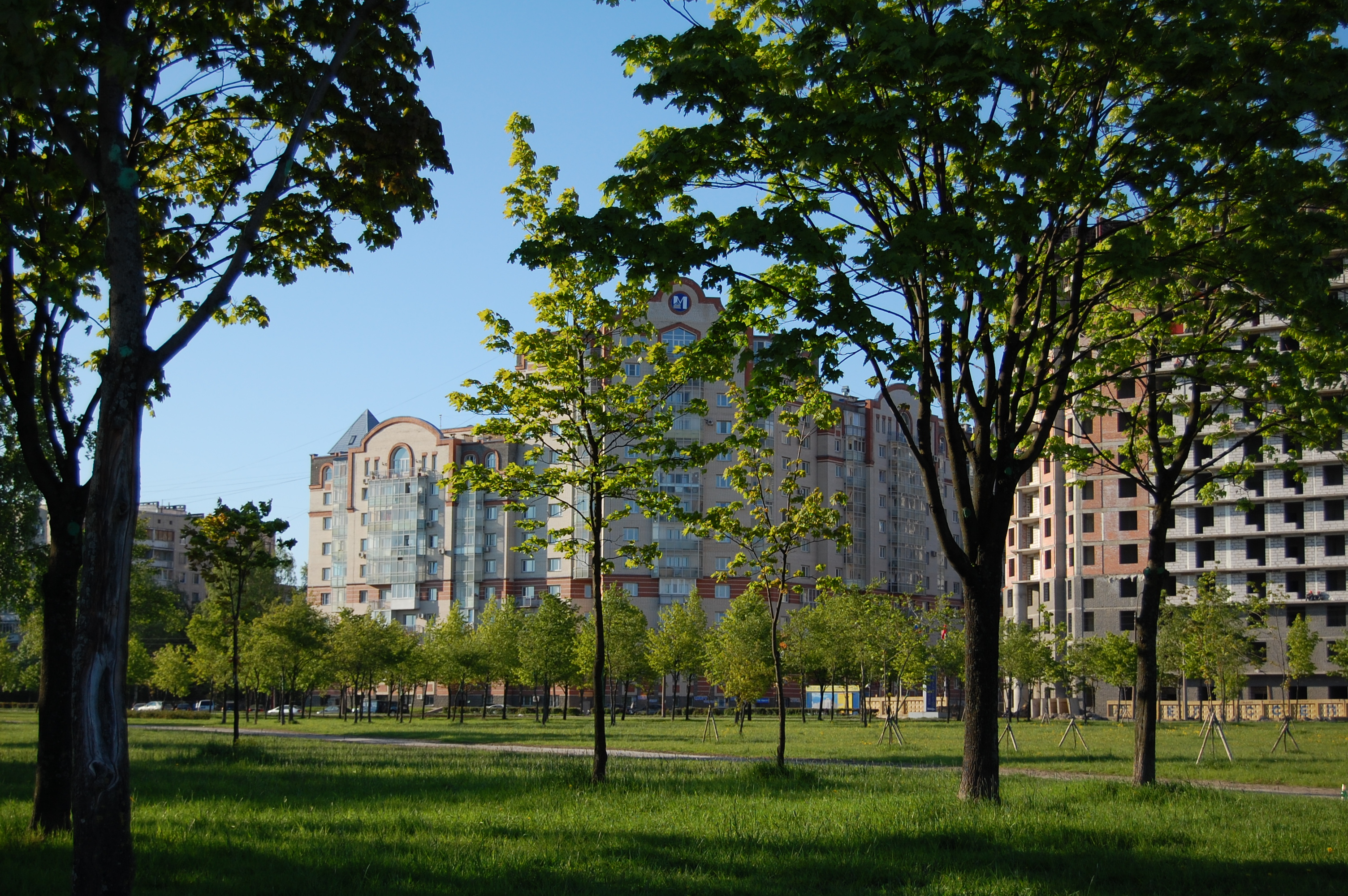 The Murinsky Park in Saint Petersburg, Russia (viewed northwards)